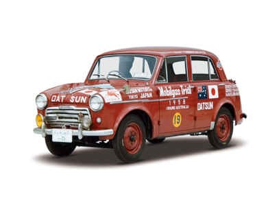 Datsun 210 Fuji